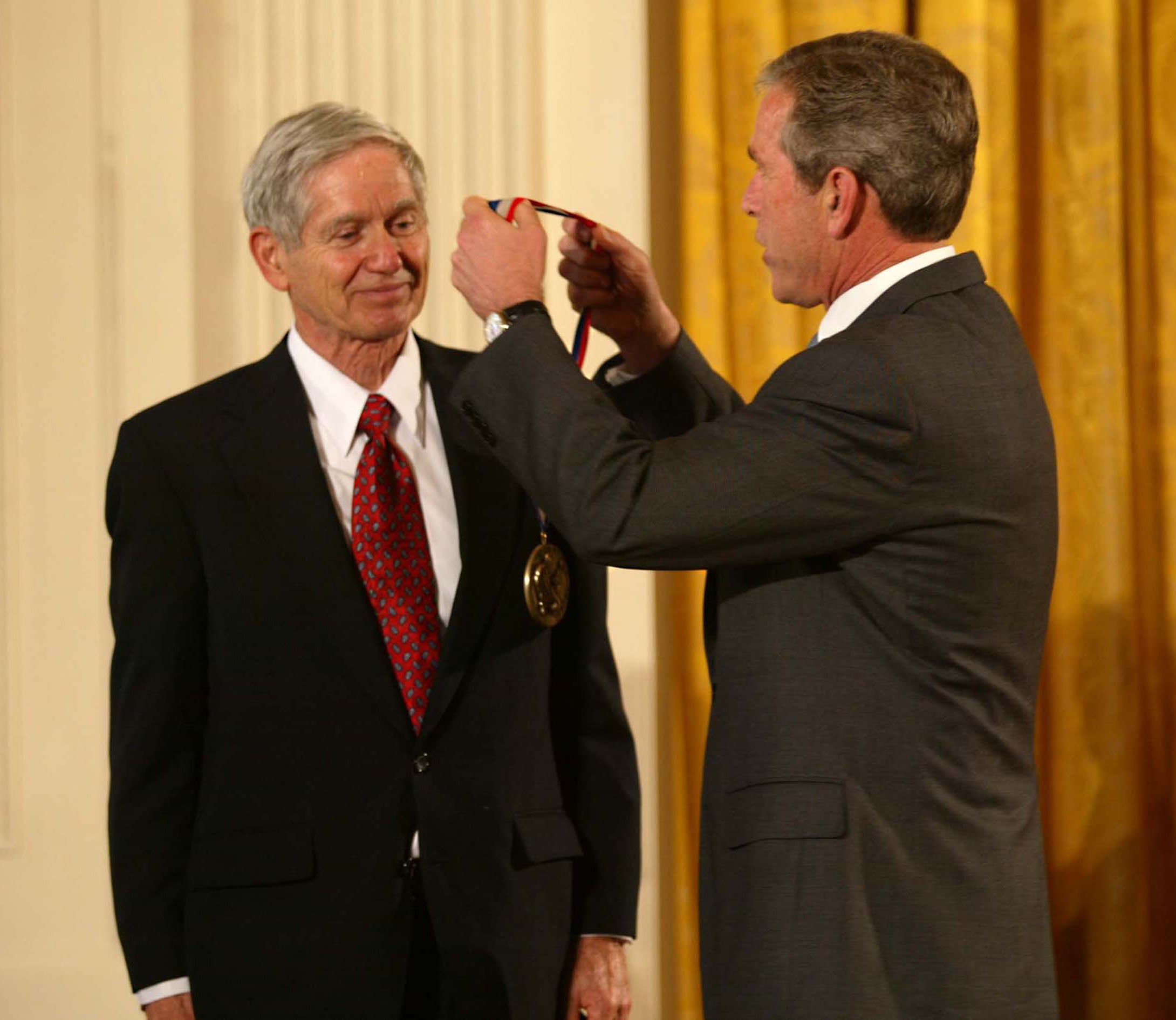 Charles Keeling receives the Medal of Science from President Bush.